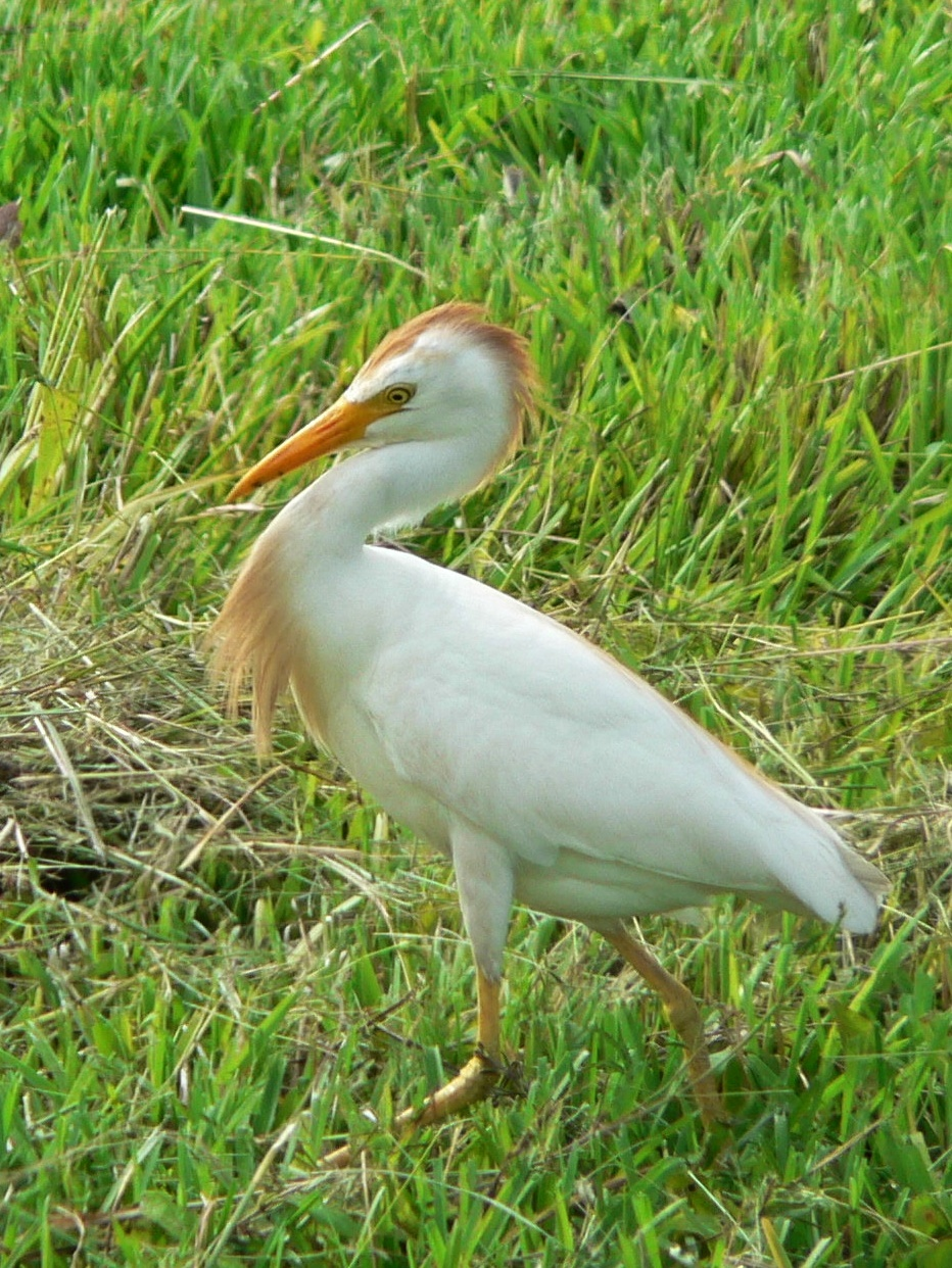 Cattle Egret (Bubulcus ibis) walking in long grass. Morey, Texas.